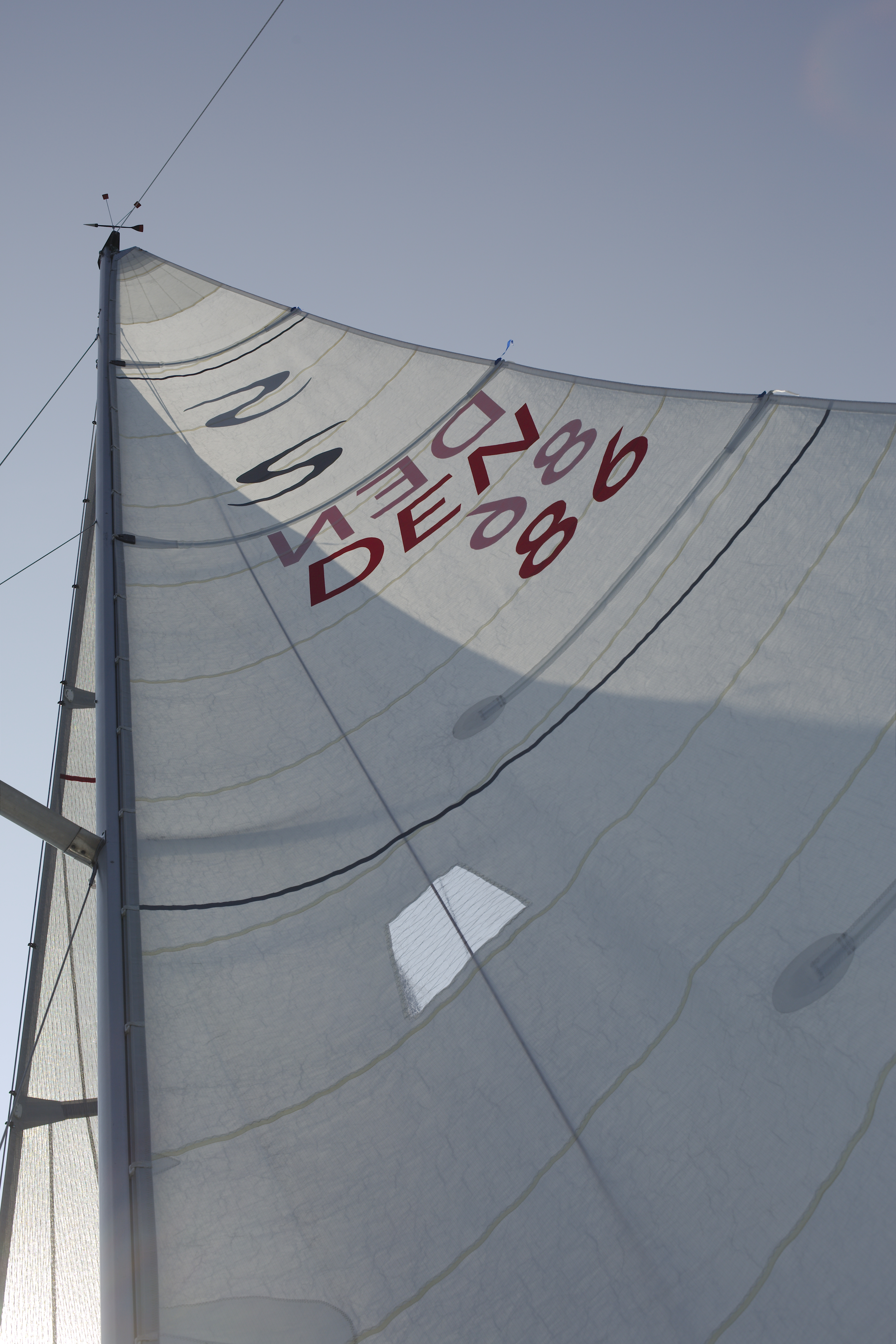 Sail on a Scankap 99